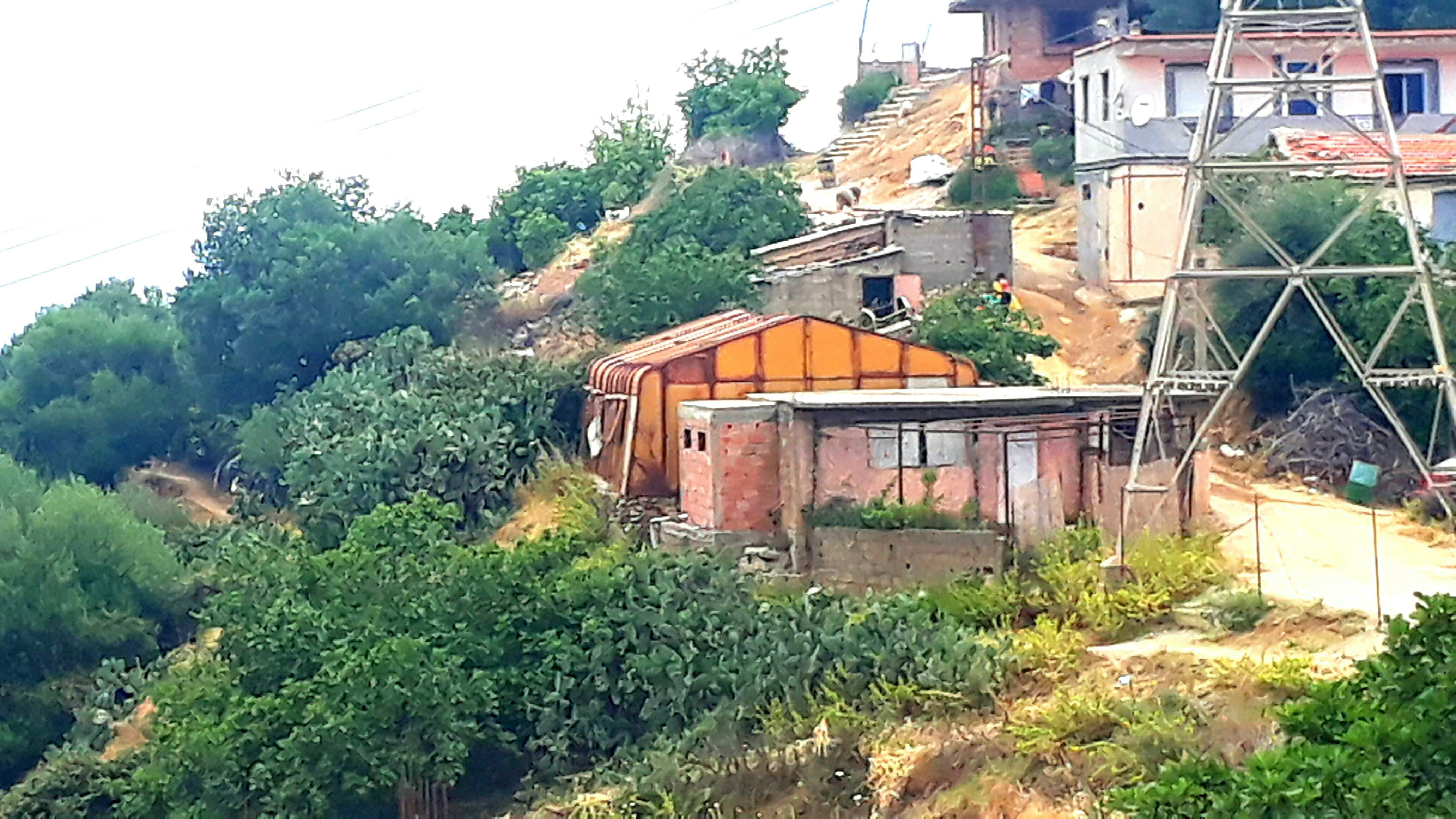 Old frech school at mezdatta village